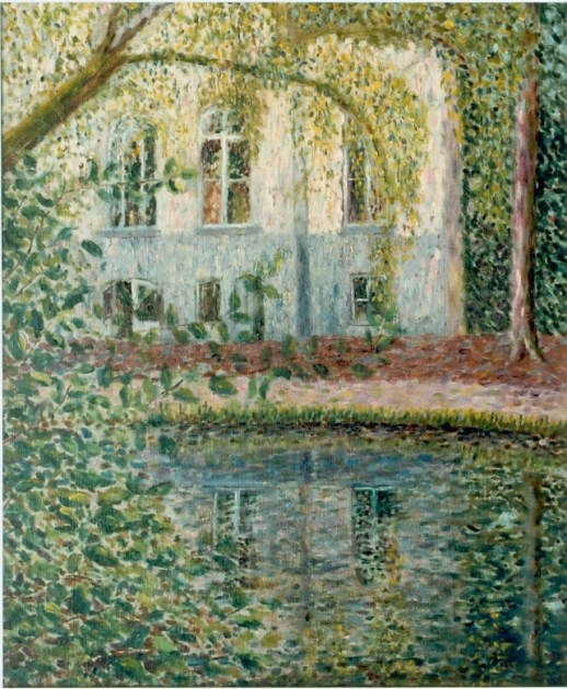 Meer met huis